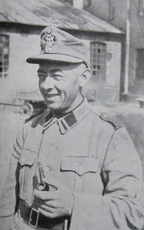 Warsaw Uprising. Sapper from German demolition unit (Sprengkommando), member of so-called Technische Nothilfe, photographed by Alfred Mensebach. Mensebach was a German architect and volksdeutsch from Leszno who documented the planed destruction of Warsaw. His album with the photos from Warsaw Uprising was discovered in Leszno after the war by Polish authorities. Original description of the photo: “Sprengmeister Sedlag from Kościan”.